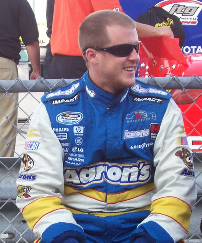 NASCAR Nationwide Series driver Ken Butler, III at the 2009 race at the Milwaukee Mile.